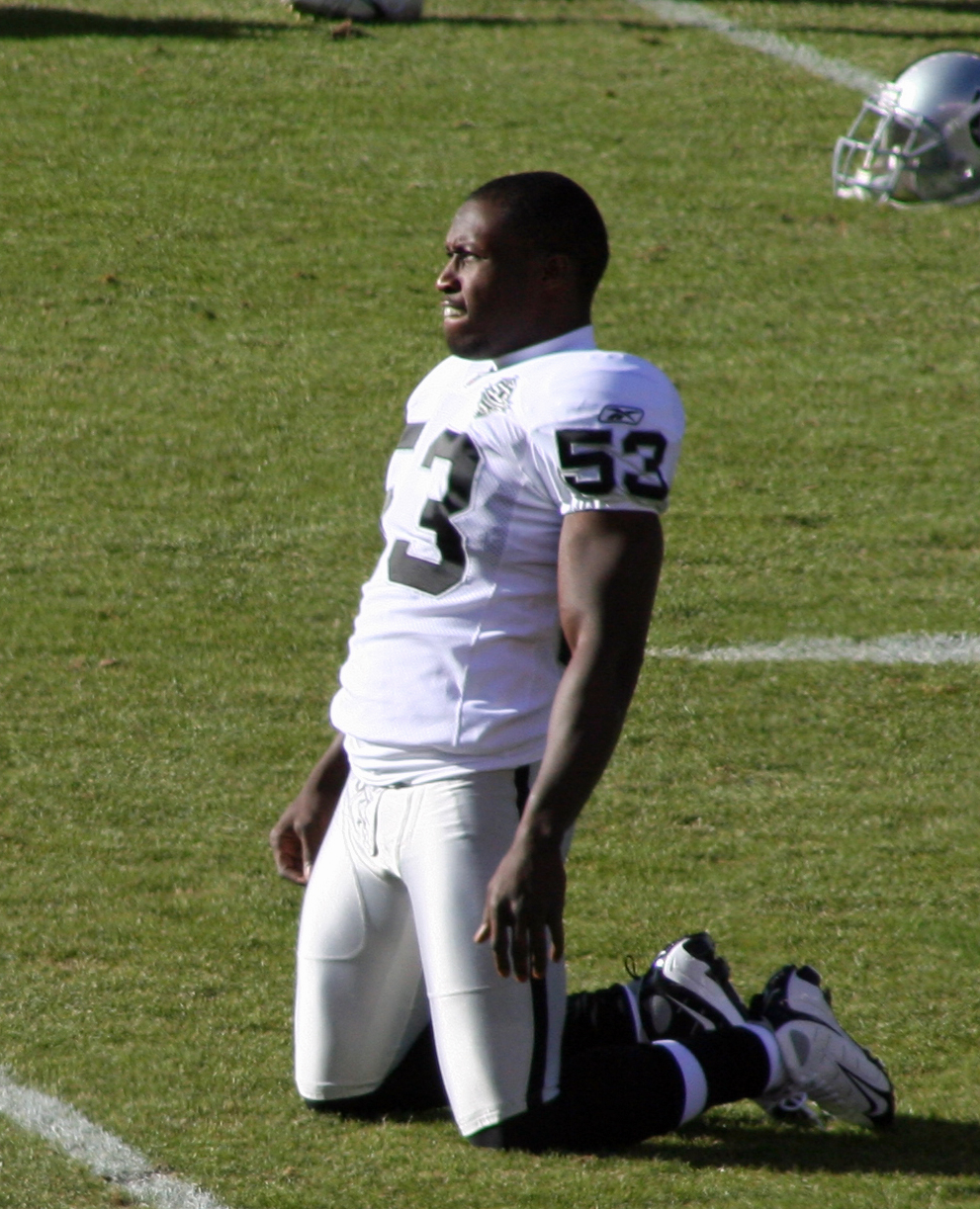 Thomas Howard, a player on the Oakland Raders American football team.